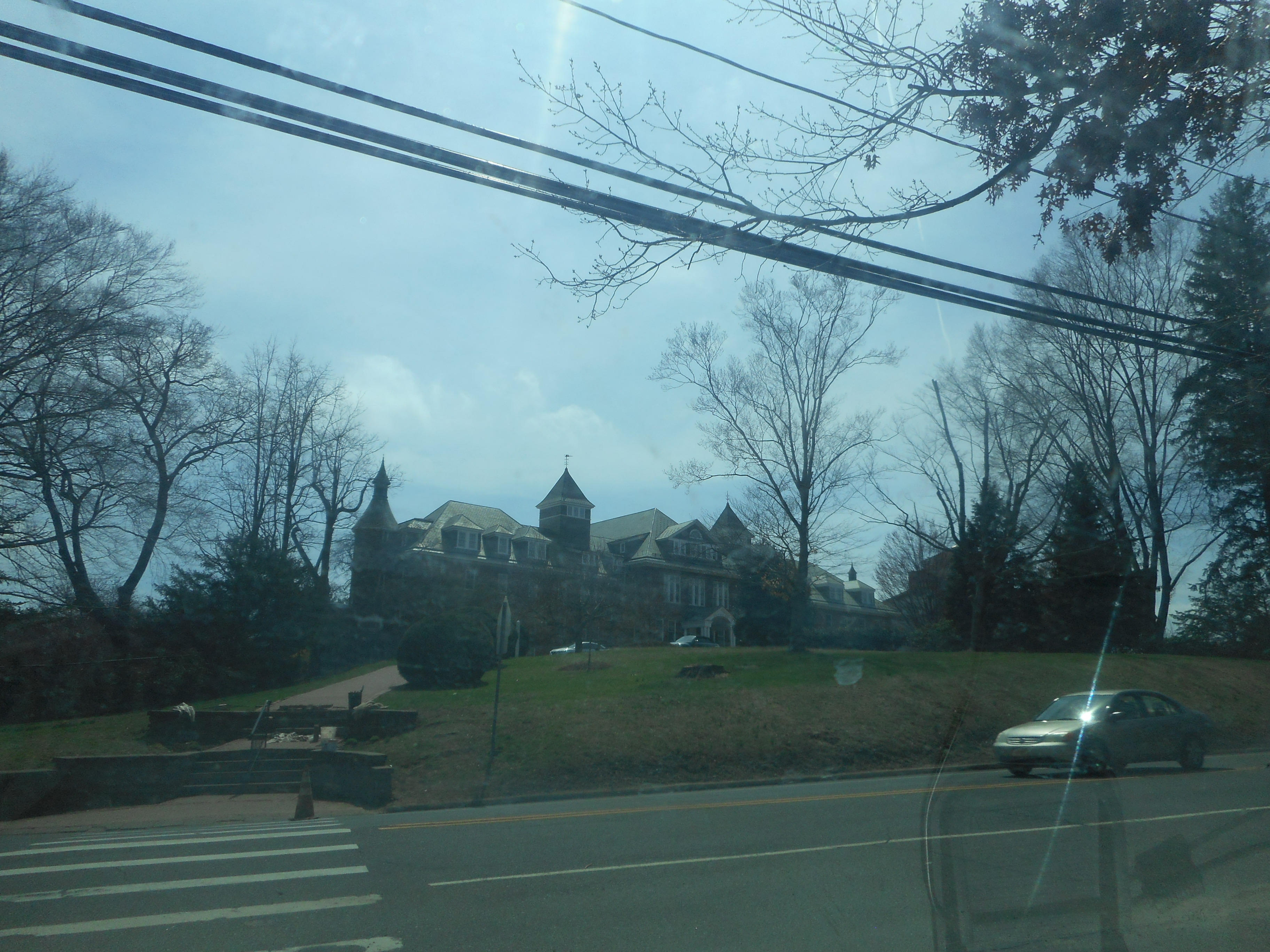 View of the main building of the Friends Academy, a long standing Quaker school associated with the Matinecock Friends Meeting House on the southwest corner of Duck Pond Road and Piping Rock Road in Locust Valley, New York. Taken from the driveway of the Matinecock Friends Meetinghouse onto Duck Pond Road itself. The Wikipedia article claims this school is in the City of Glen Cove, although a sign on the west side of the driveway welcomes motorists to Glen Cove. So apparently that means the school is partially in Glen Cove and partially in Locust Valley.